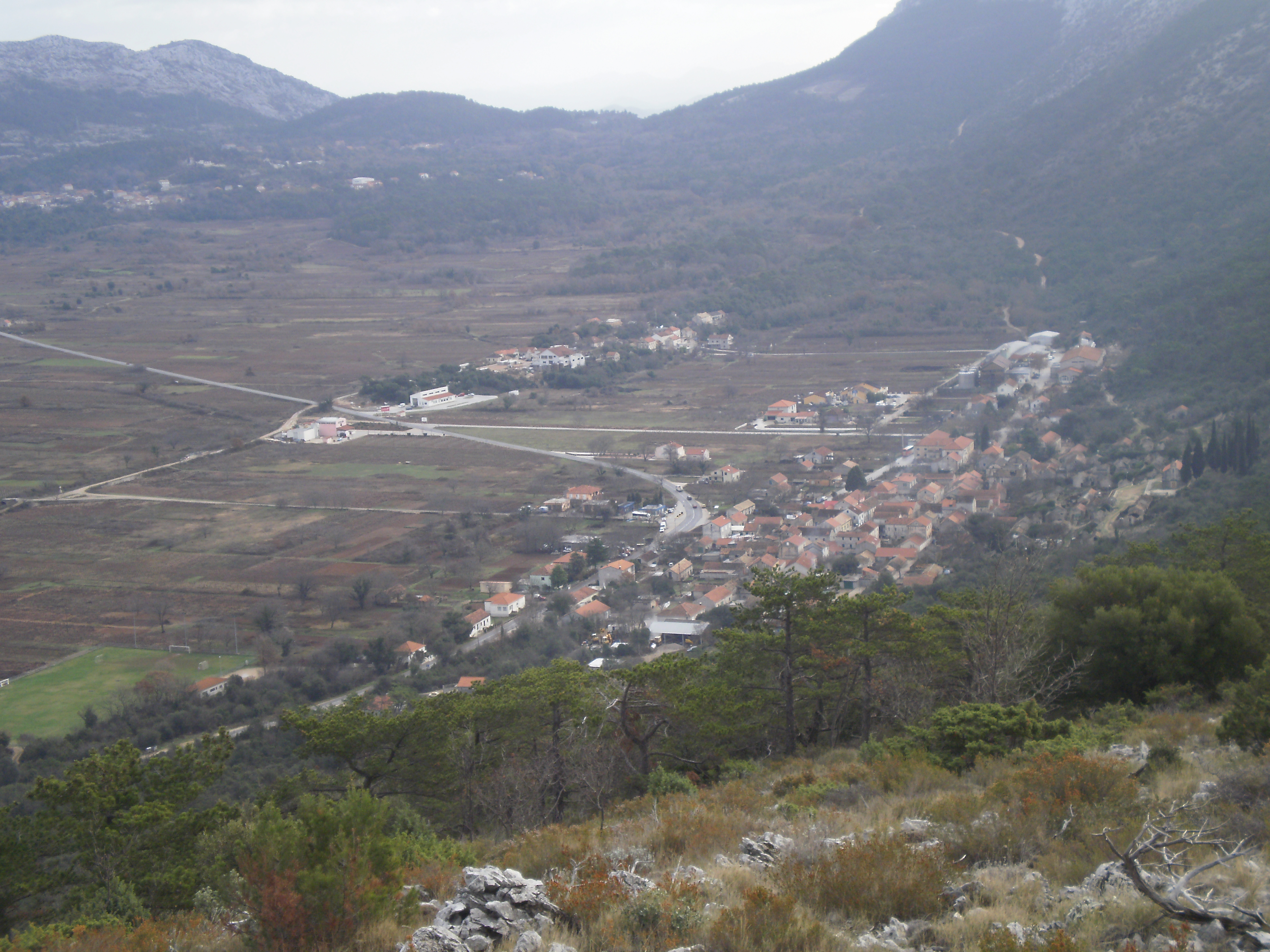 Panorama photo of Potomje OLYMPUS DIGITAL CAMERA